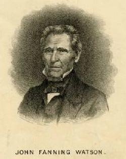 Steel engraving of John Fanning Watson (1779-1860)